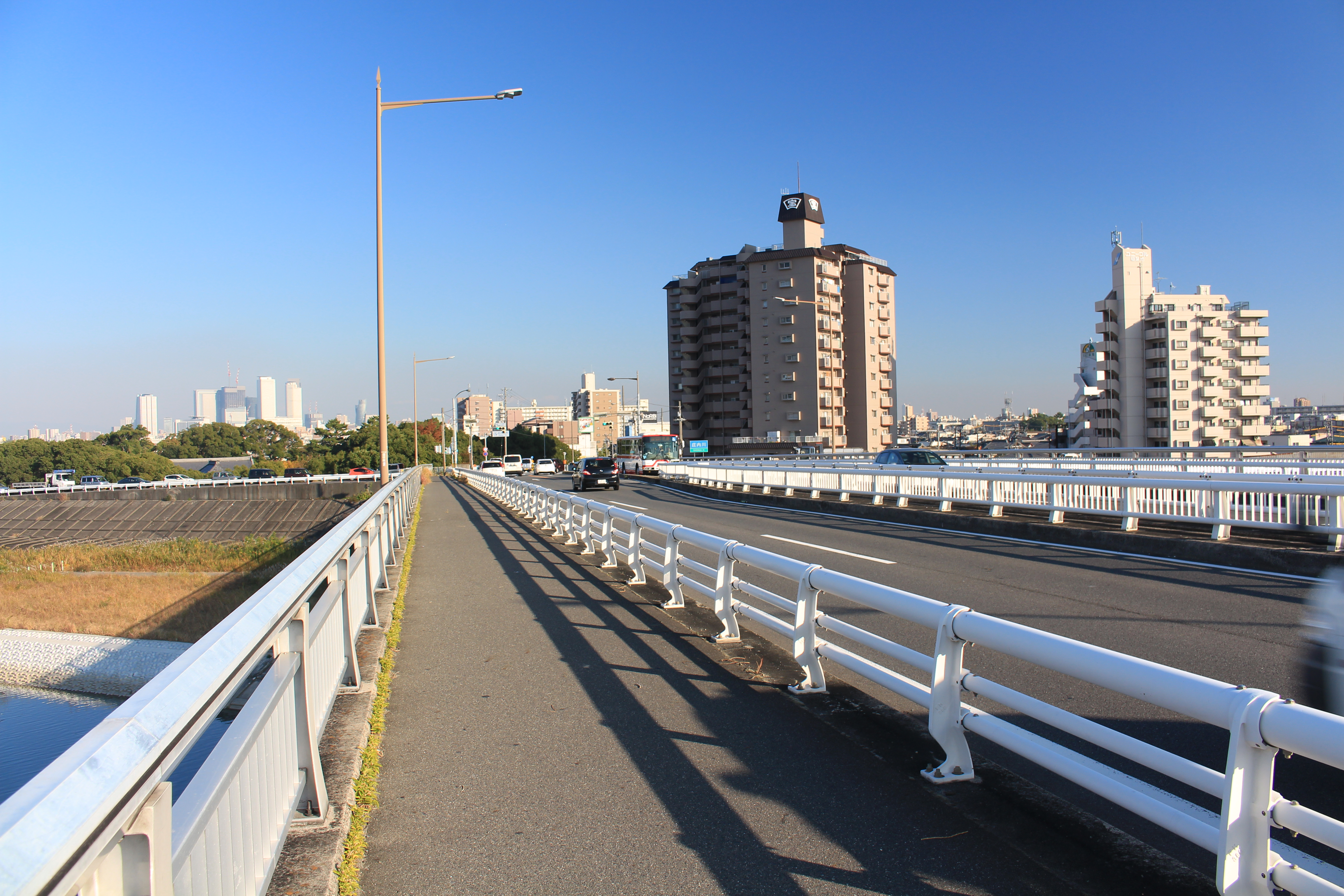 Shintaisho Bridge, a bridge over Shōnai River of Aichi Prefectural Road Route 68 in Nakamura-ku, Nagaoya and Ōharu, Aichi prefecture, Japan.